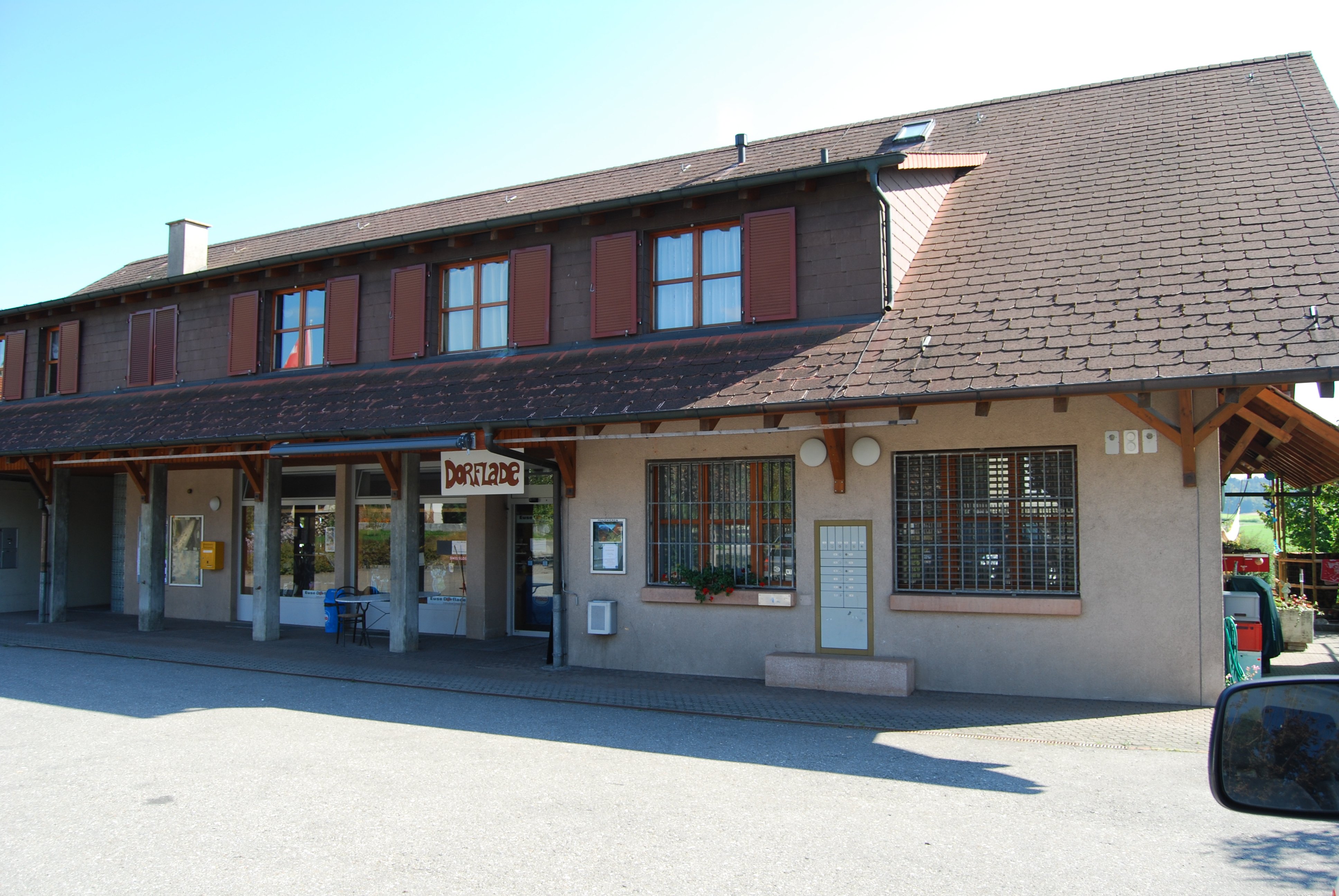 Besenbüren, canton of Aargau, SwitzerlandEsperanto: Besenbüren, Kantono Argovio, Svislando